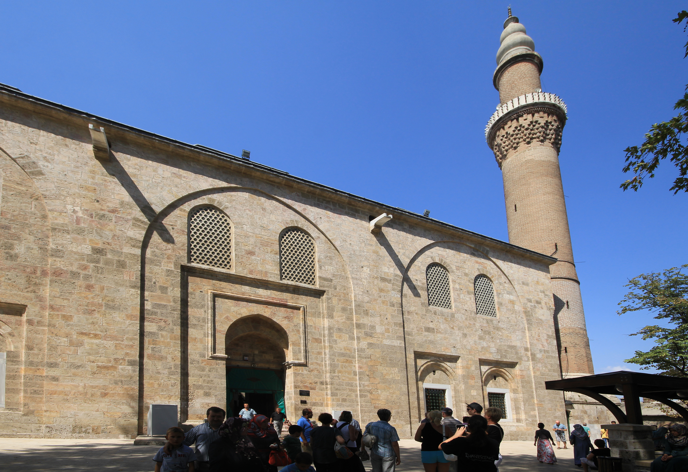 Side entrance and minaret of the mosque Bursa Grand Mosque in Bursa city, Turkey